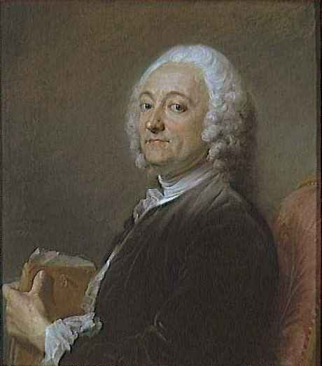 Depicted person: Hubert Drouais (1699–1767), French painter, portraitist and miniaturist; father of the painter François-Hubert Drouais